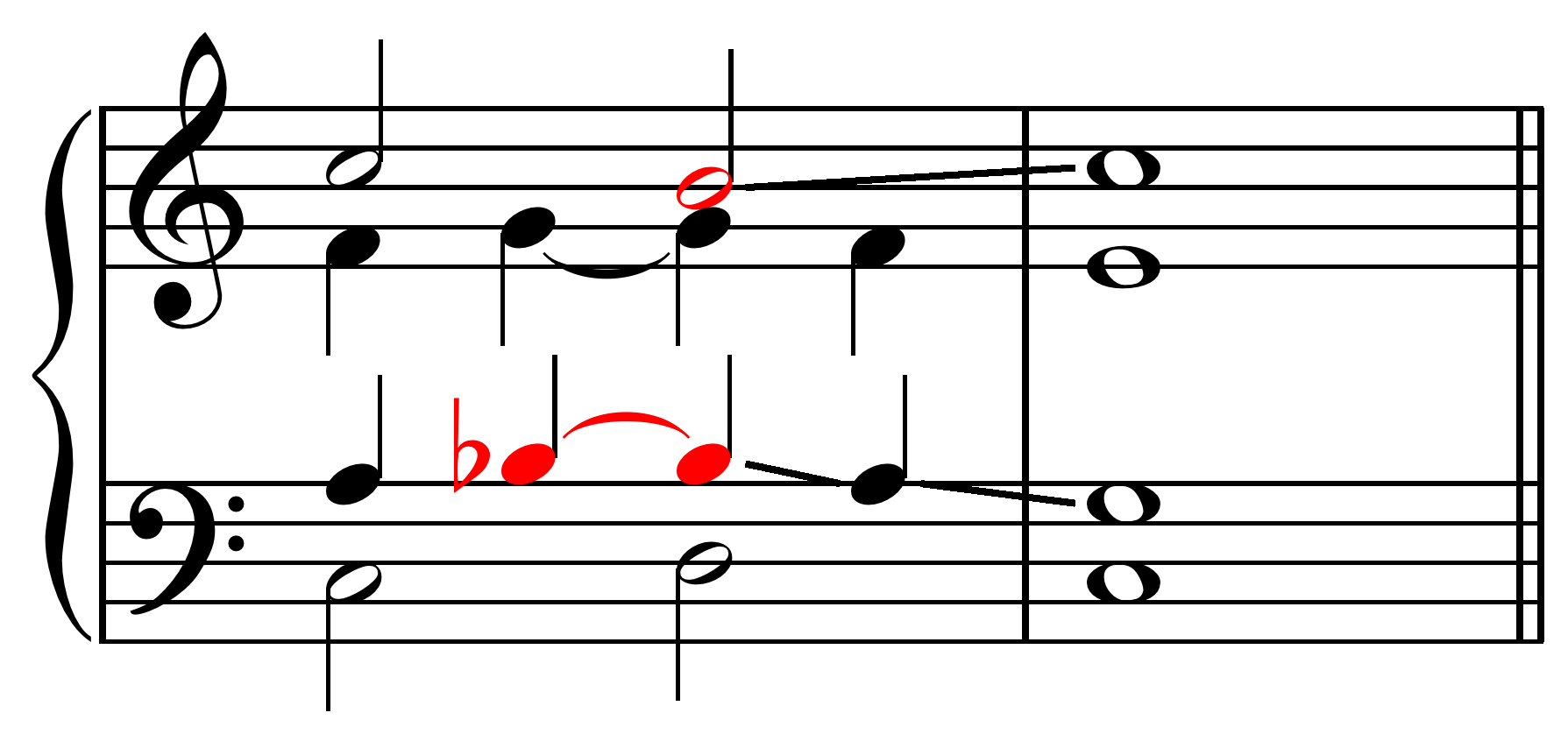 English cadence on C with parallel fifth. Split seventh: B♮ and B♭.